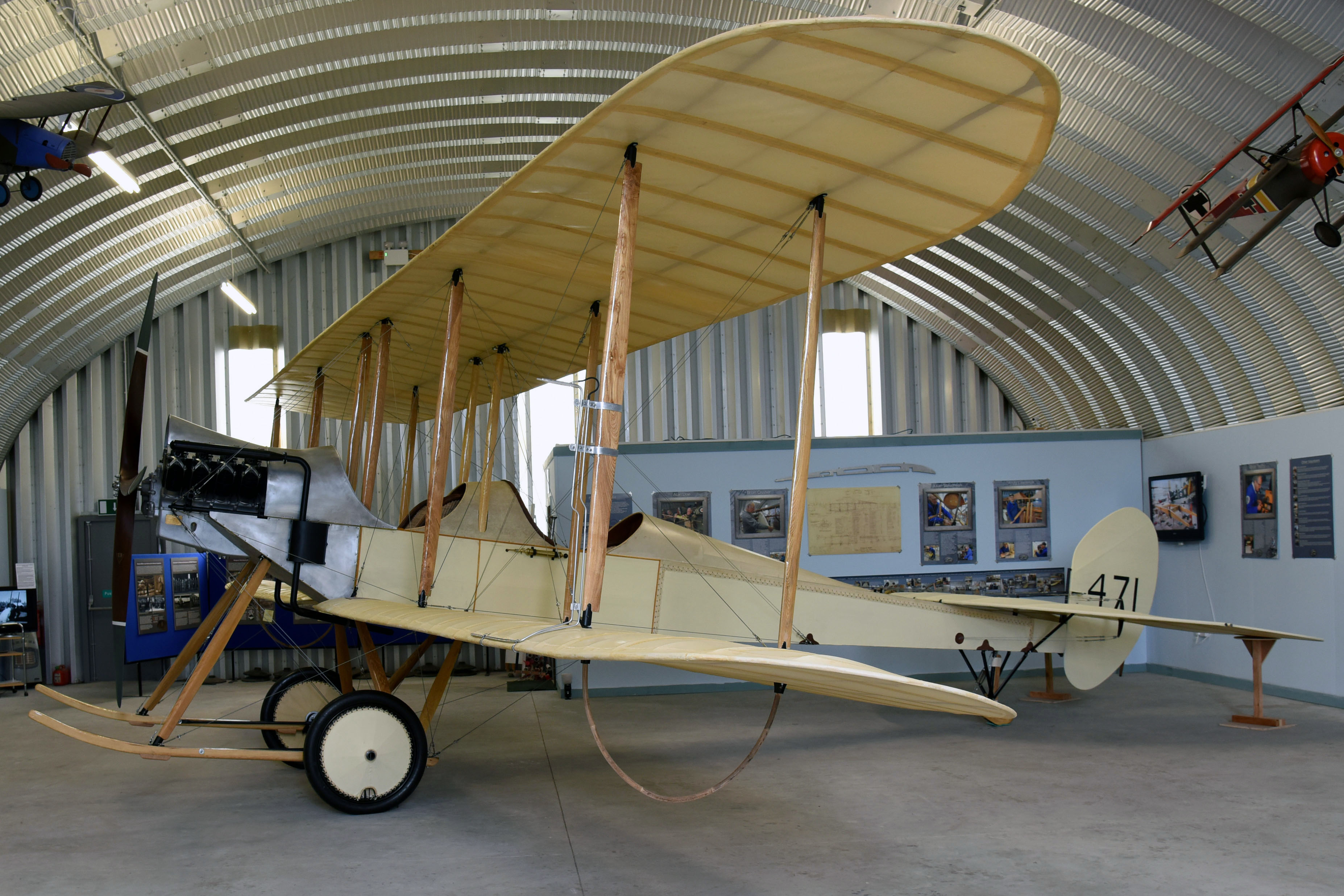 Replica of B.E.2a No.471 at Montrose Air Station Heritage Centre, Angus, Scotland.